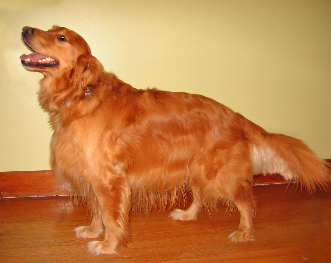 A adult male Golden Retriever named Sammy. A friend-of-a-friend's dog. Sammy is from show, rather than working, bloodlines, as is obvious by his profuse feathering.